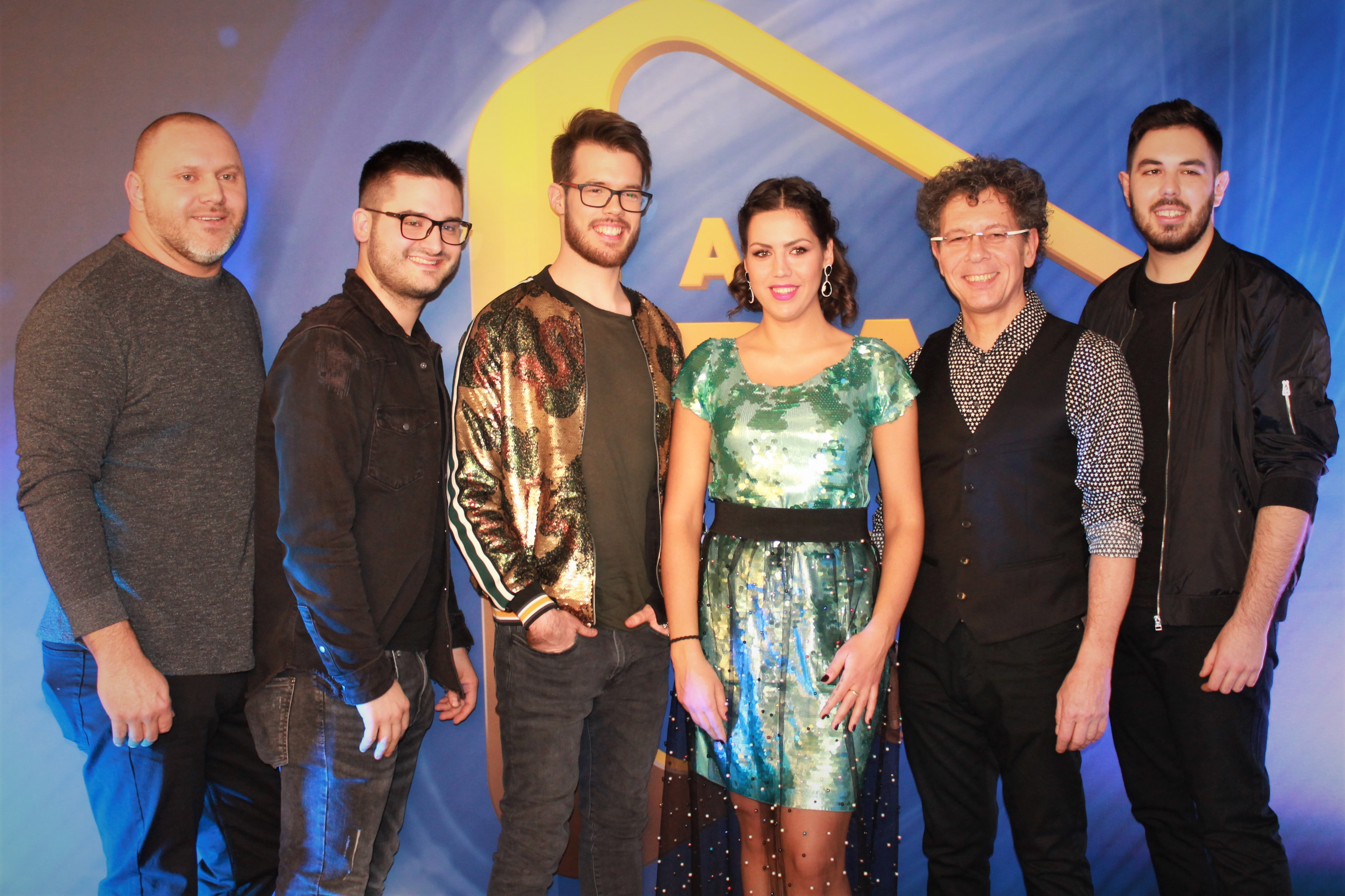 A Dal 2019 participant: Acoustic Planet